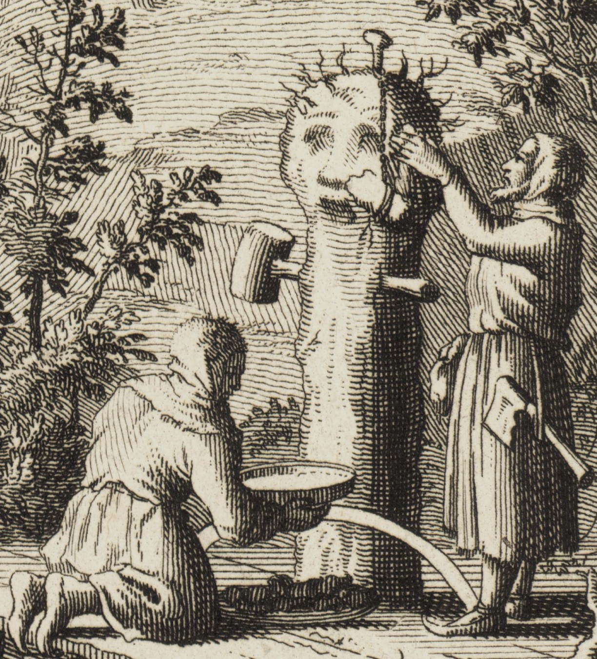 Sami people of Lapland offering to the pre-Christian god Tiermes or Thoron; engraved illustration by Bernard Picart from Cérémonies et coutumes religieuses de tous les peuples du monde (1725).